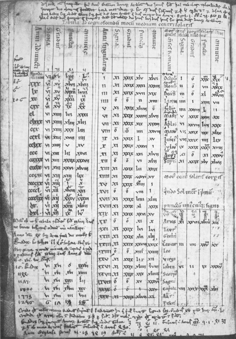 A page from Corpus Christ College MS 283.